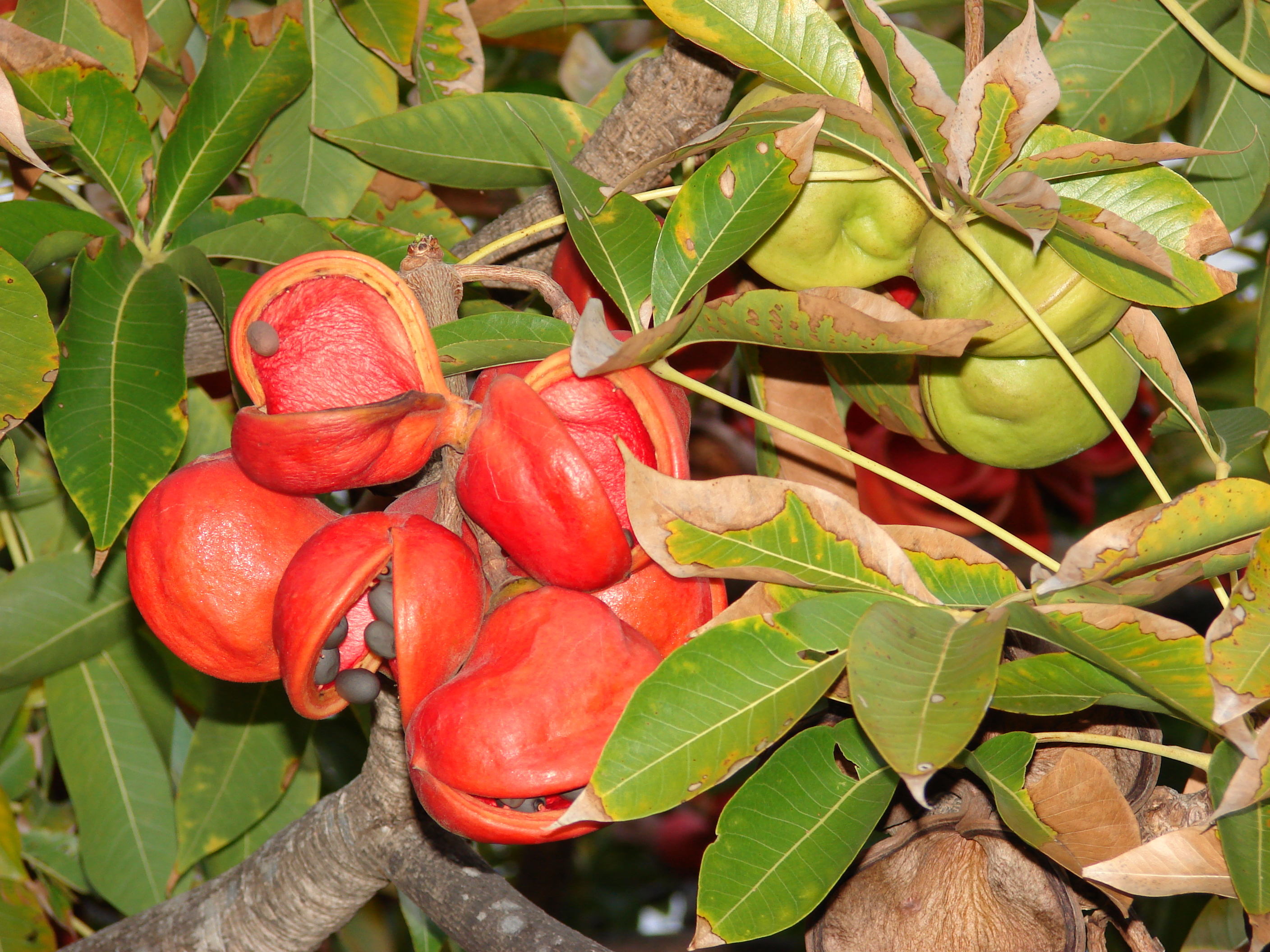 Sterculia foetida (fruit and leaves). Location: Oahu, Ala Moana Beach Park